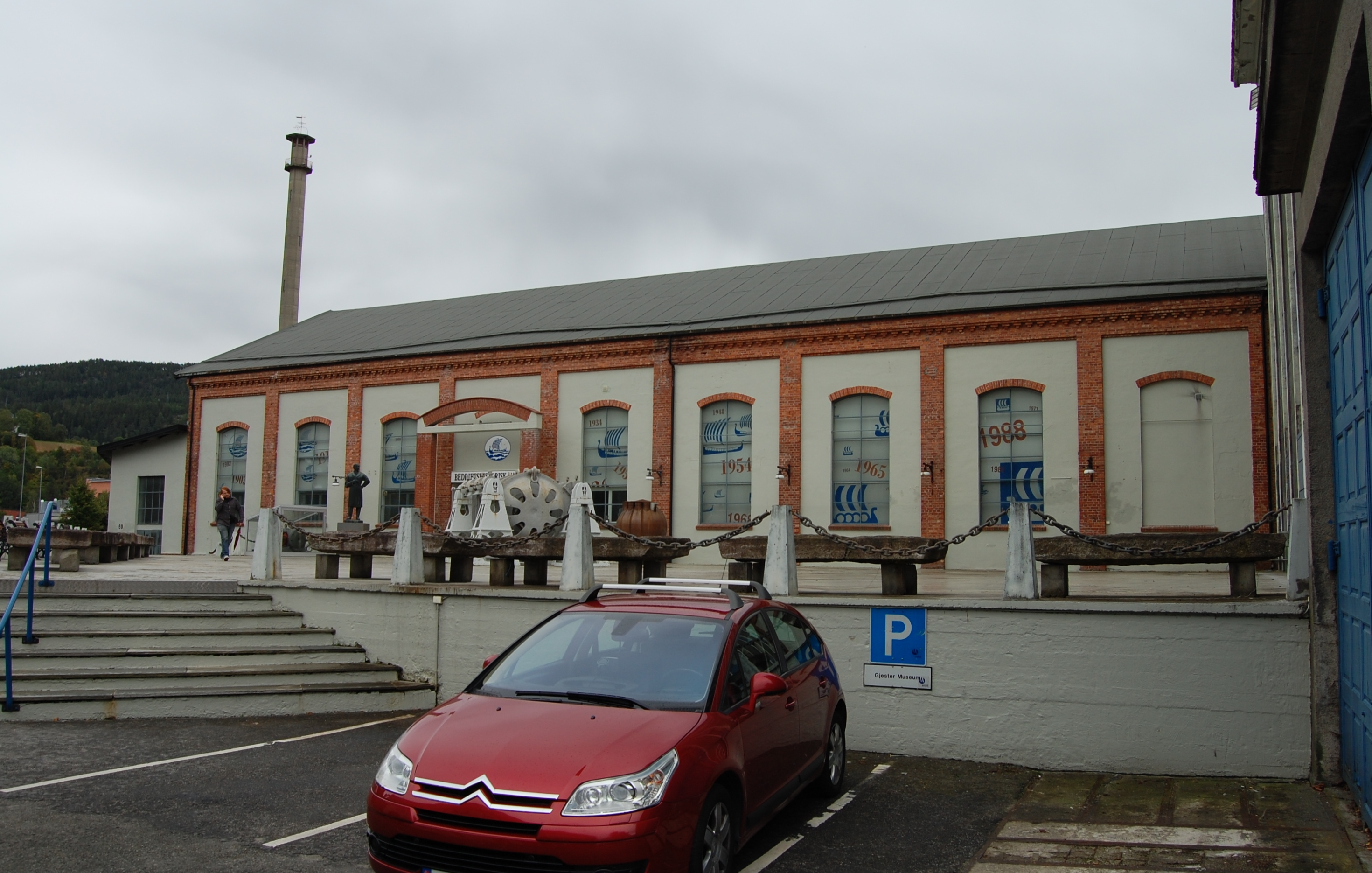 Furnace House A (1906-1907), Notodden, Norway